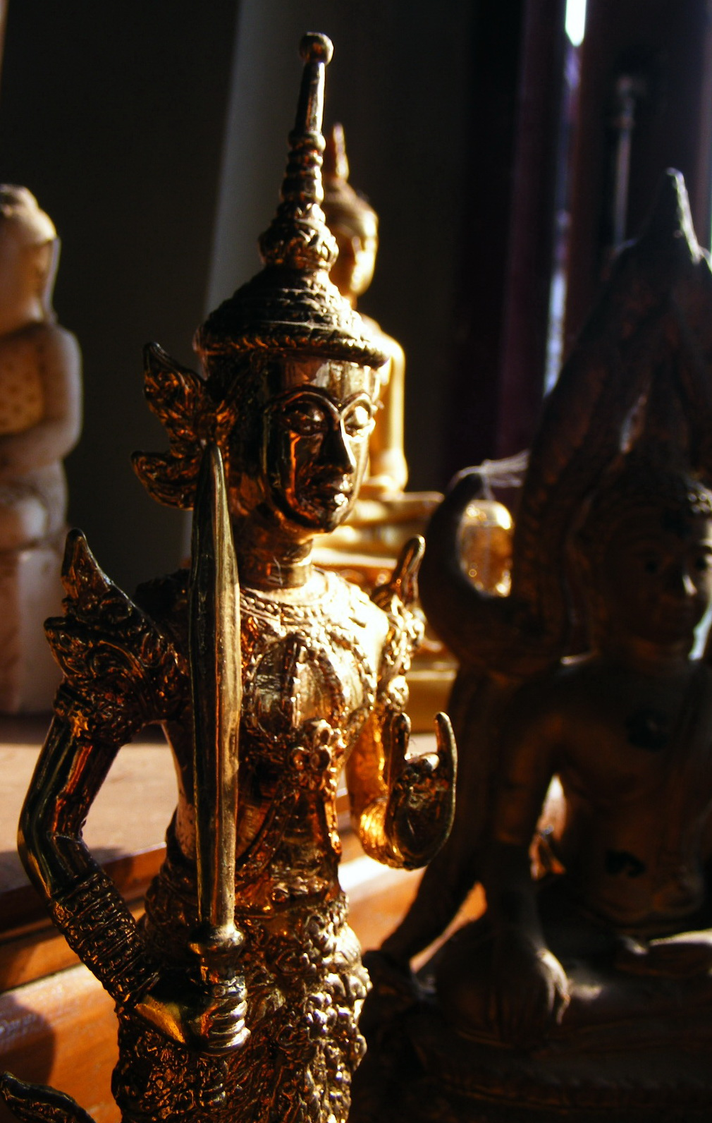 Phra Siam Devathiraja Location: Wat Khung Taphao Ban Khung Taphao, Khung Taphao subdistrict, Mueang Uttaradit, Uttaradit Province, Thailand.